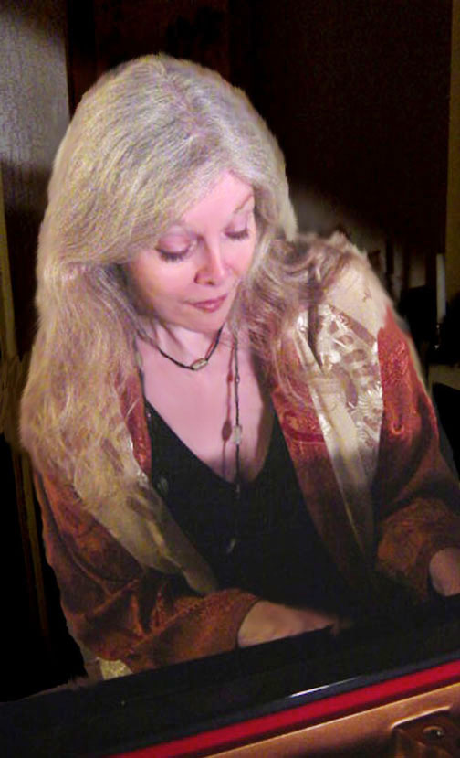 Photo of Jessica Williams, jazz pianist and composer